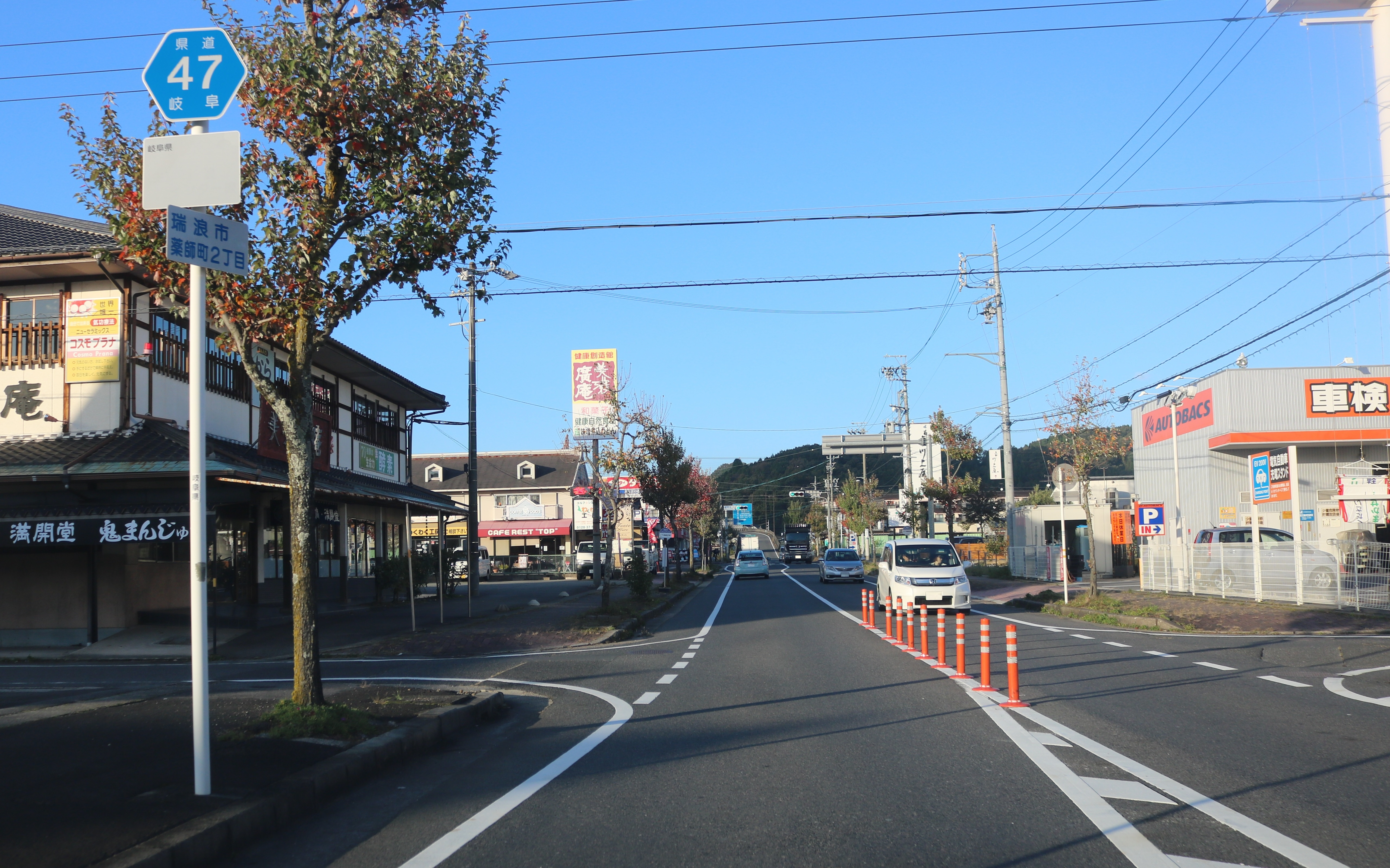 Gifu Prefectural Road Route 47 in Yakushichō, Mizunami, Gifu Prefecture, Japan.